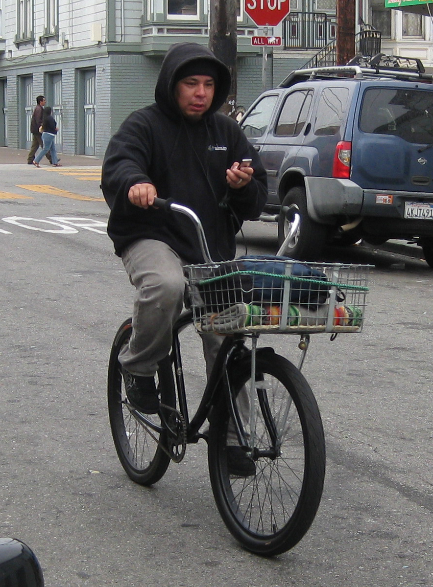 Kenny Davis, Muscogee Creek-Navajo, from Okmulgee, Oklahoma